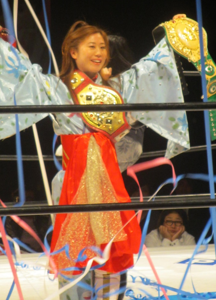 Japanese professional wrestler, Tsukasa Fujimoto. Apr 2 2016, Pro-wrestling WAVE Shin-kiba 1st Ring.